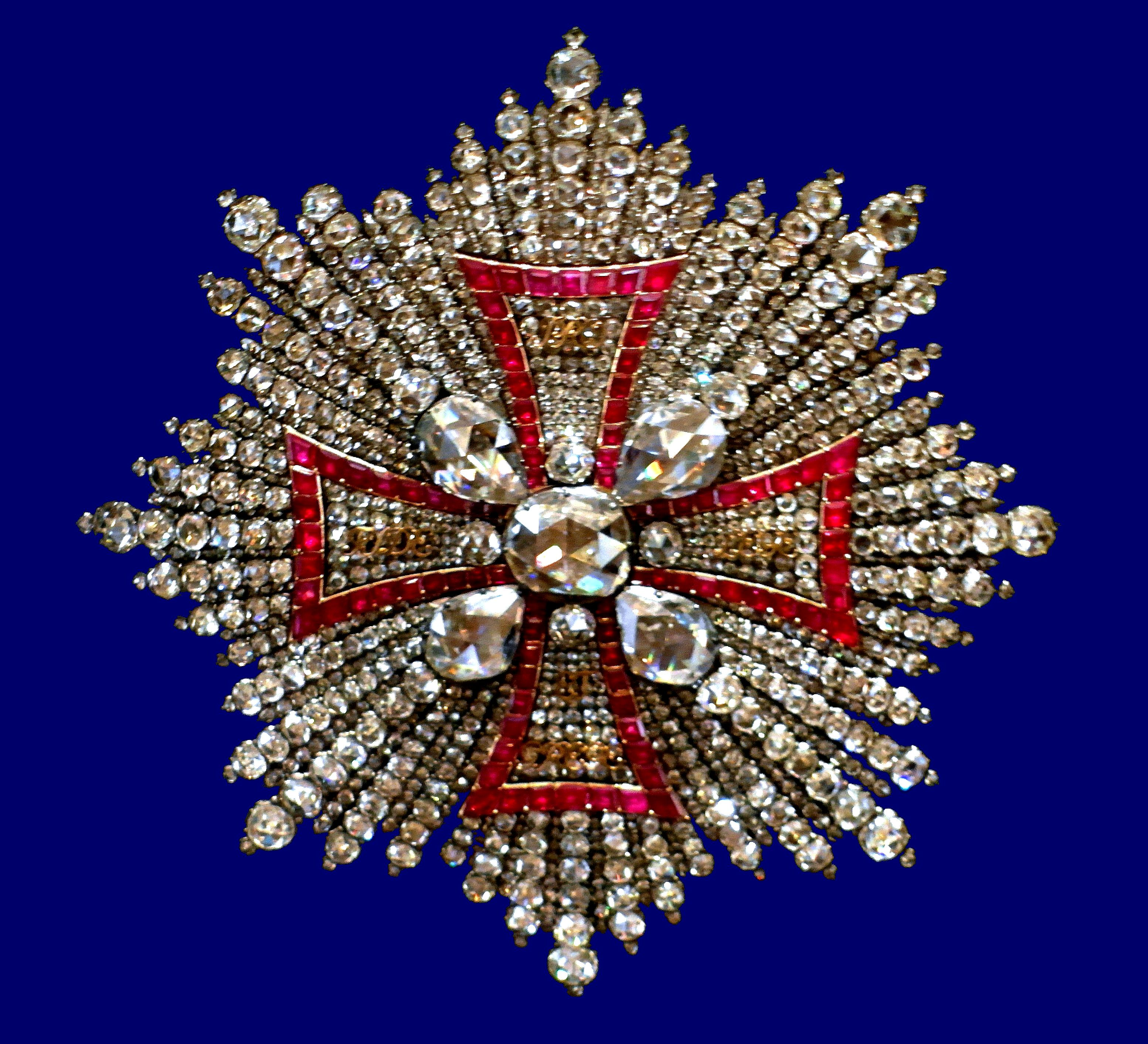 Star of the Royal Diamantrosengarnitur of the Order of White Eagle of Augustus II the Strong